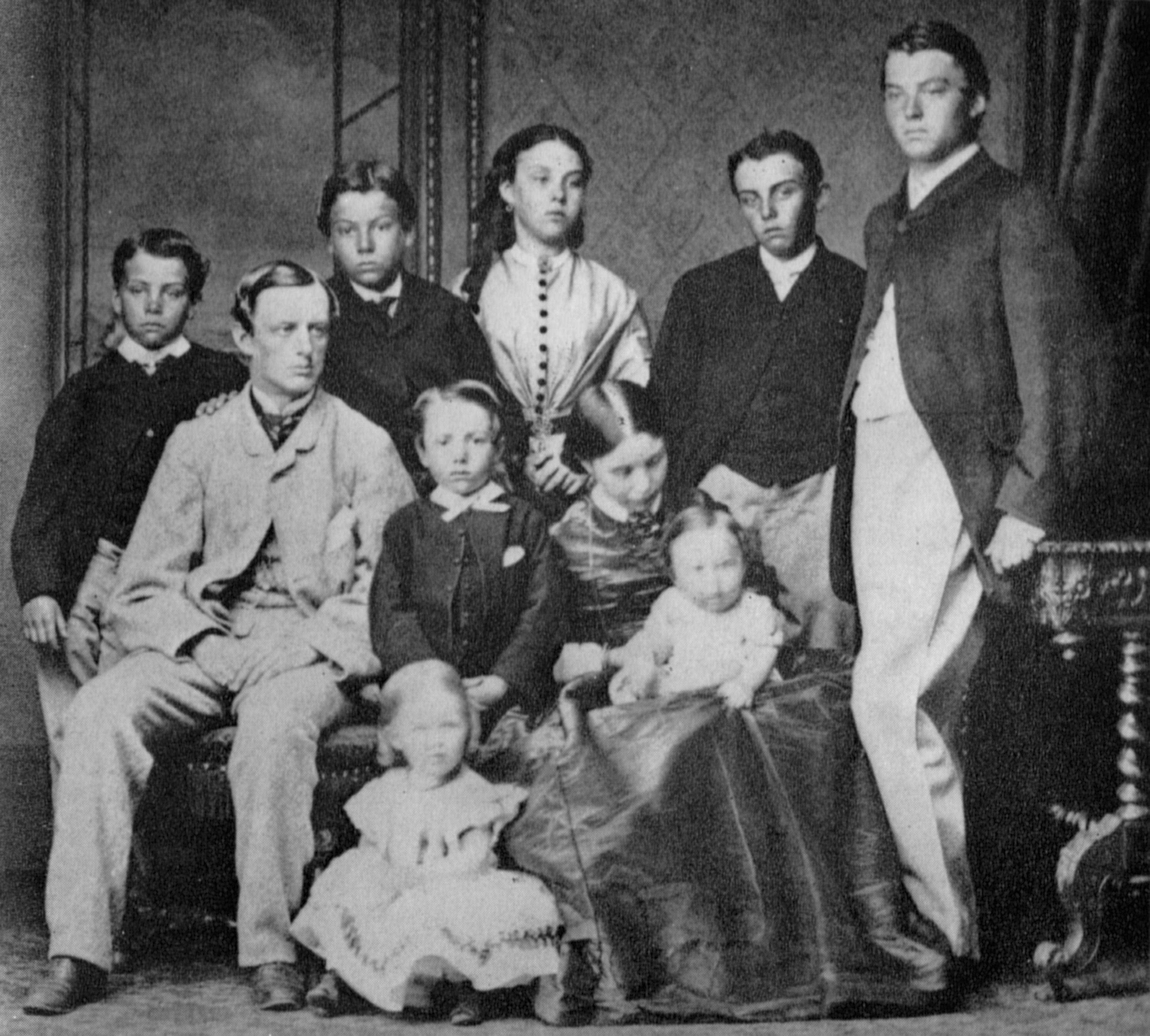 British Admiral John Arbuthnot Fisher (25 January 1841 – 10 July 1920) (far right) with siblings. Standing, from the left: Frederick, Frank, Lucy, Arthur and John. Seated: brother-in-law Lindsey Daniell, Philippe, Alice (Mrs Daniell), holding two of her own children.